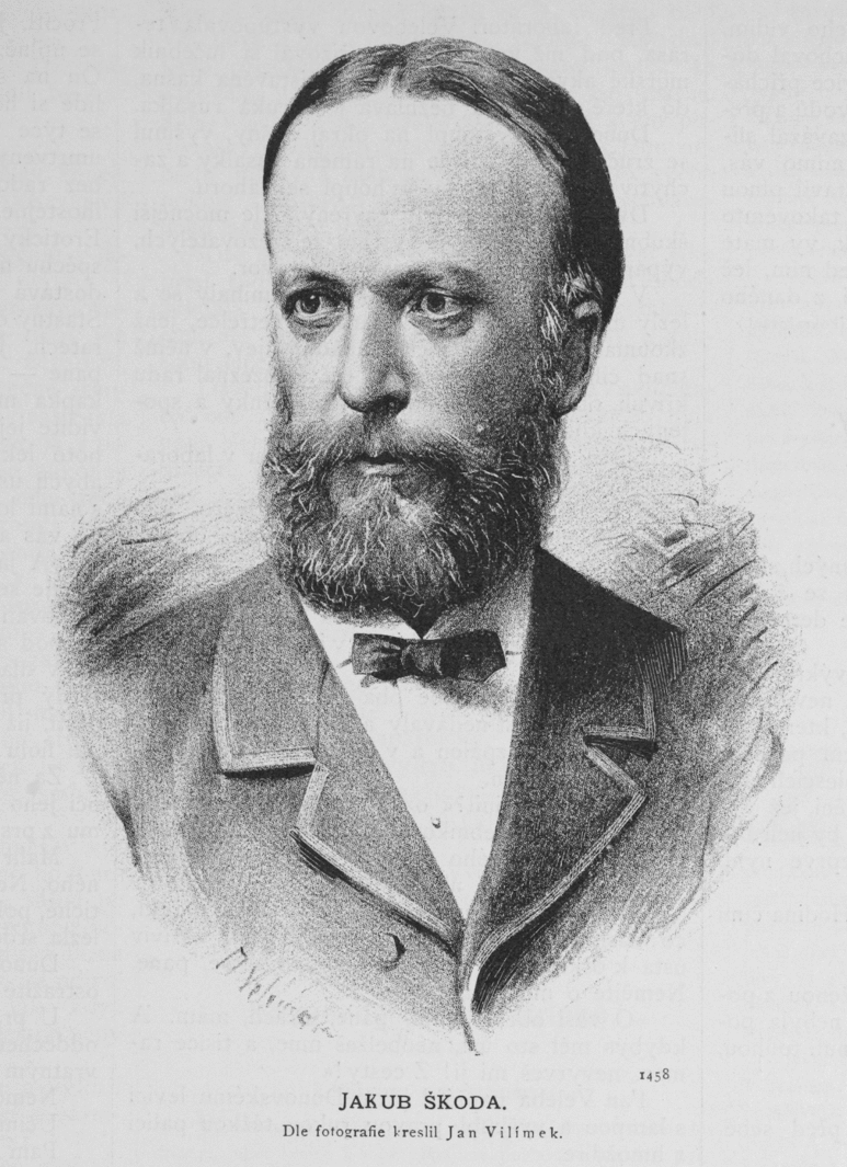 Portrait of Jakub Škoda Počátecký (1835-1885), Czech high-school teacher and translator.